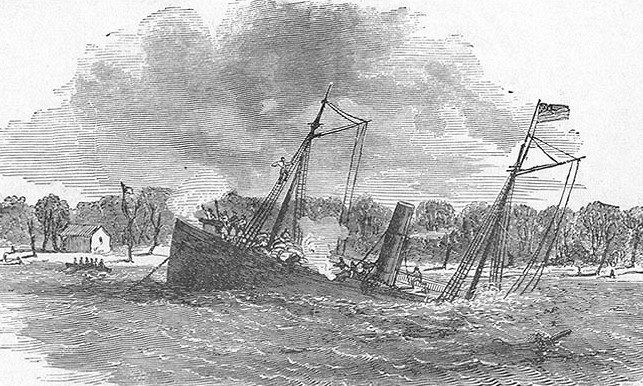 From U.S. Navy public domain Photo #: NH 504 "The Last Broadside of the Varuna." Line engraving, published circa the 1860s, depicting USS Varuna continuing to fire at Confederate forces as she sank, during the battle off Forts Jackson and St. Philip, below New Orleans, Louisiana, on 24 April 1862. U.S. Naval Historical Center Photograph.